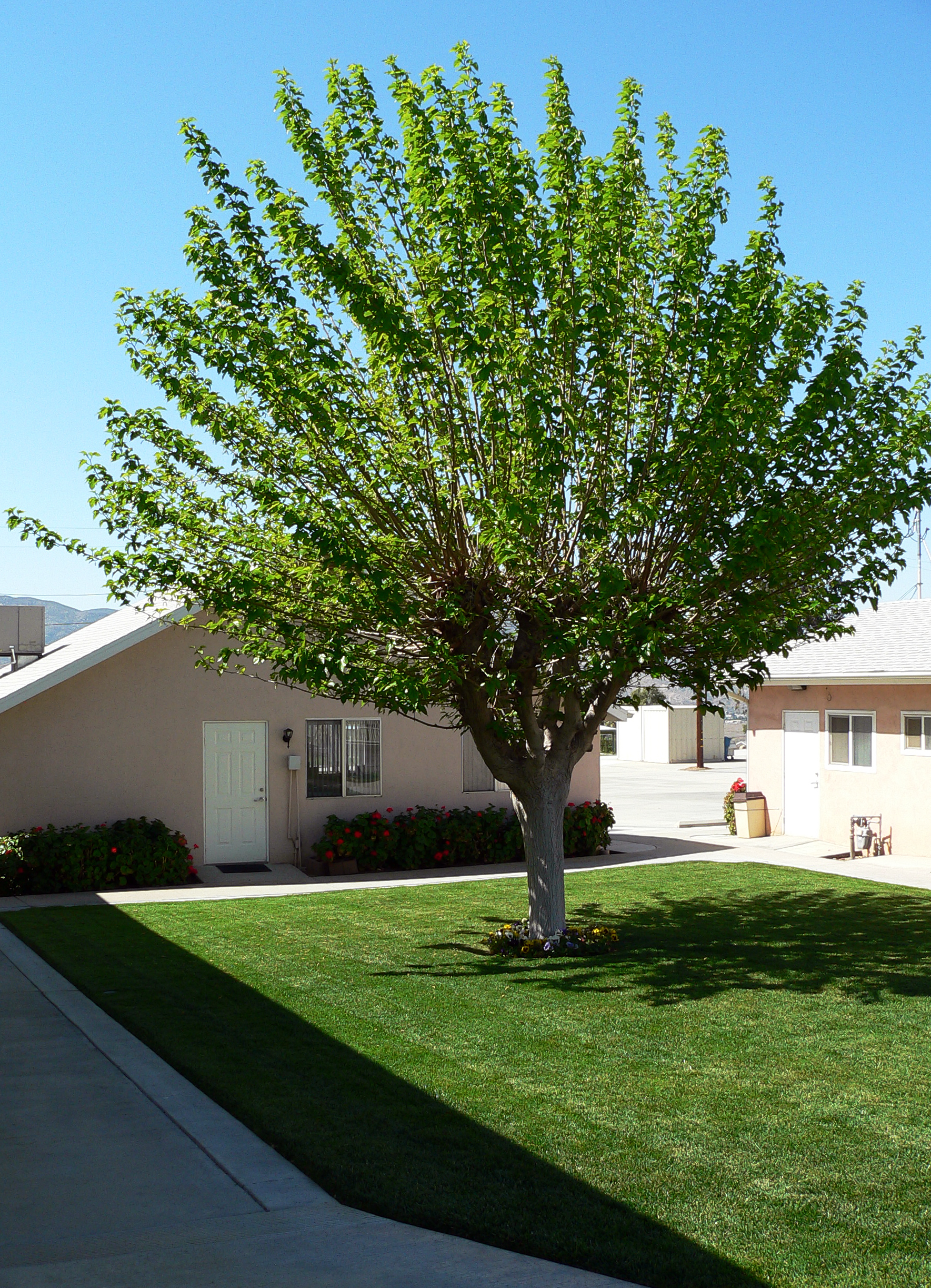 Morongo Reservation View. Tree is Morus alba.